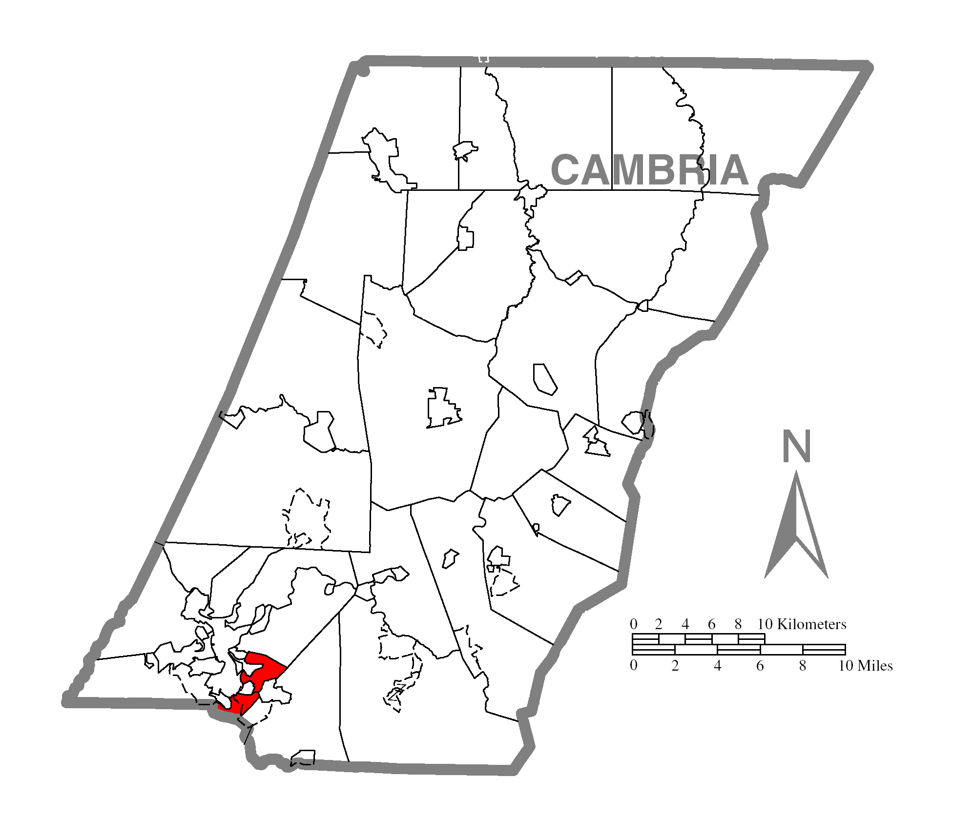 A map of Cambria County showing Stonycreek Township, Pennsylvania (alternate) highlighted on the map.